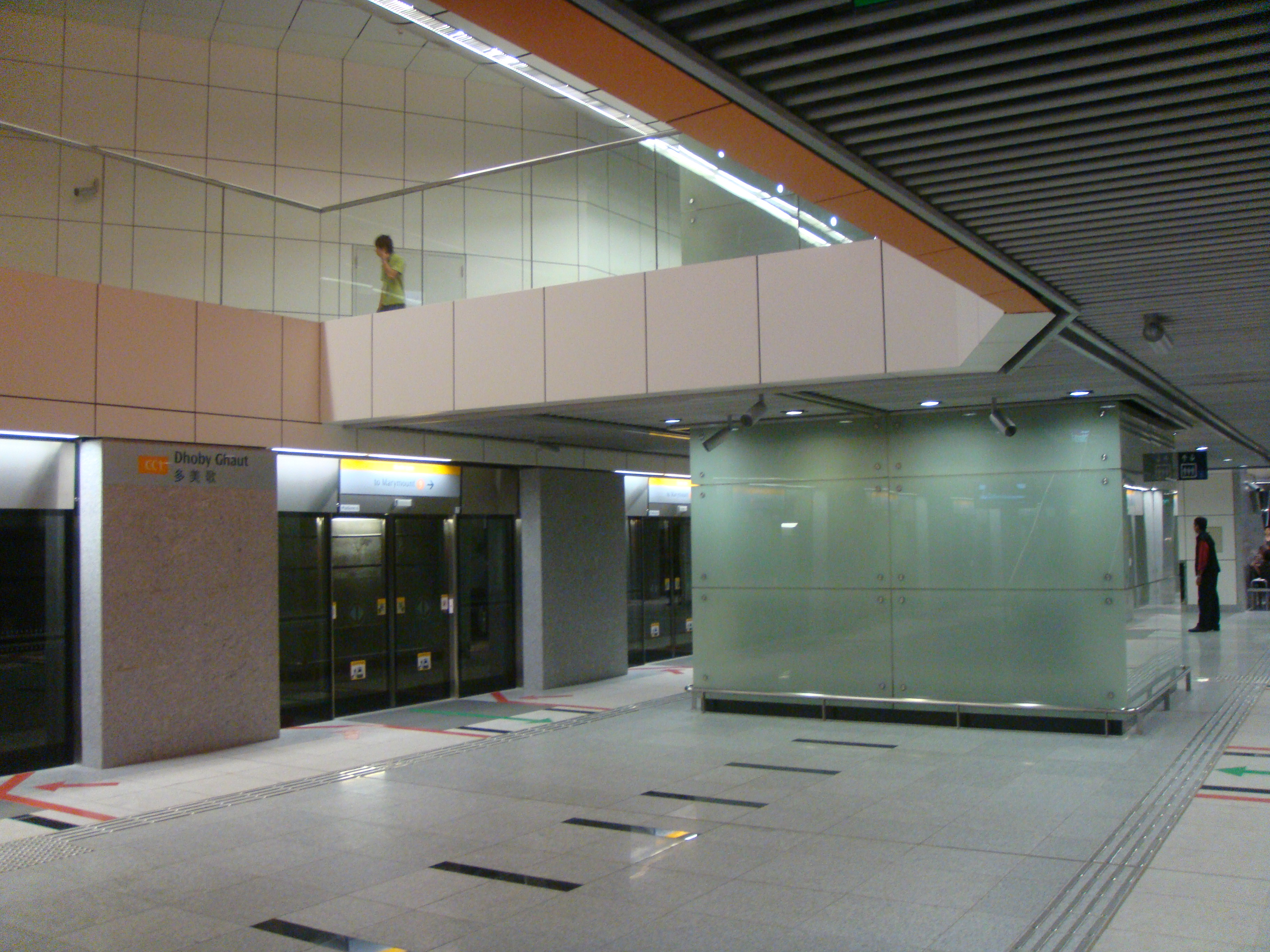 Circle Line platform of Dhoby Ghaut MRT Station, taken on the LTA Circle Line Discovery II Open House.